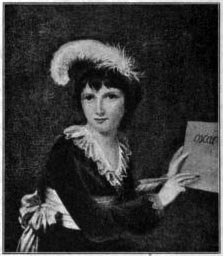 Prince Oscar of Sweden